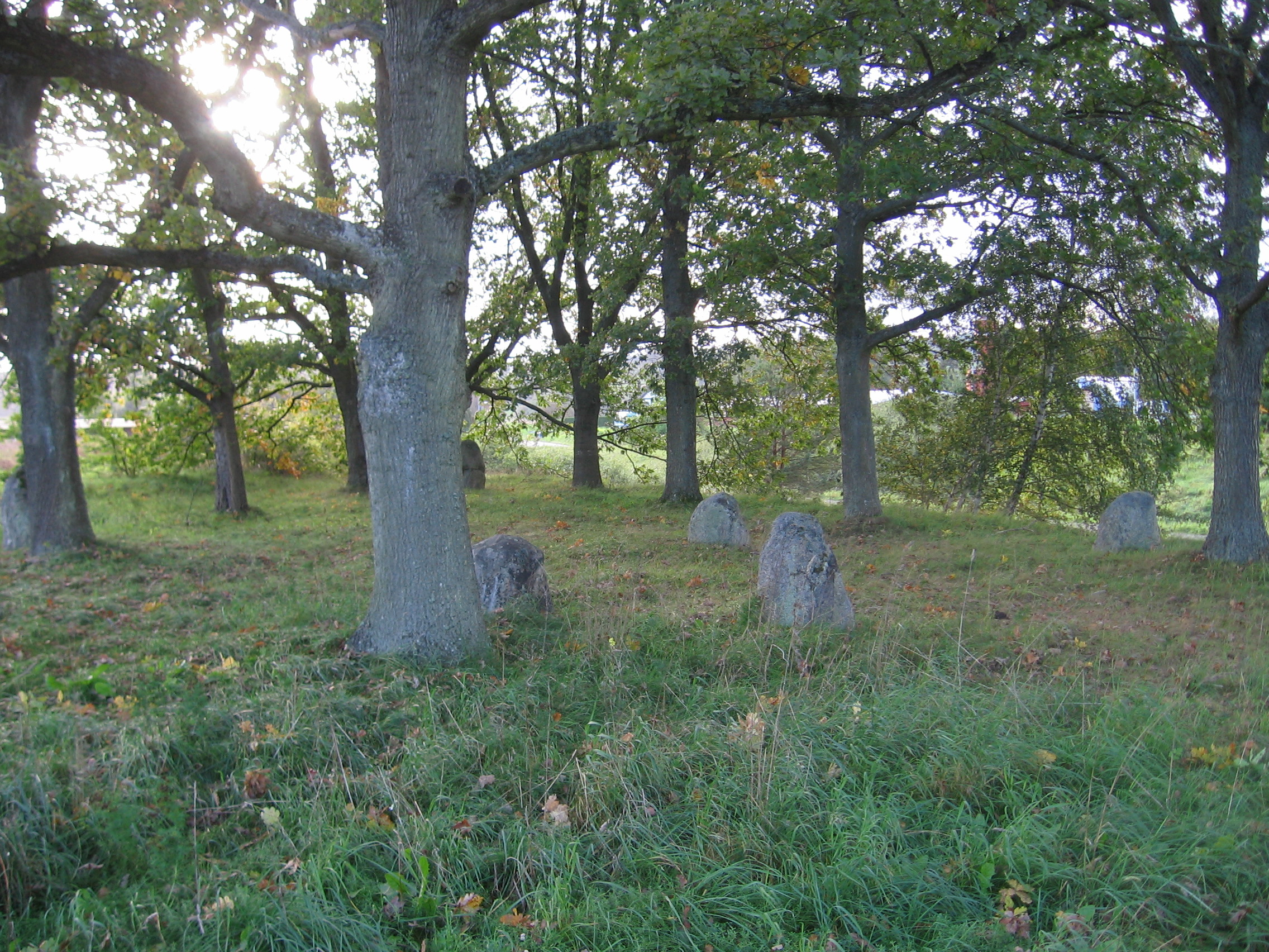 Stone circle (domarring) in the swedish village Degeberga.